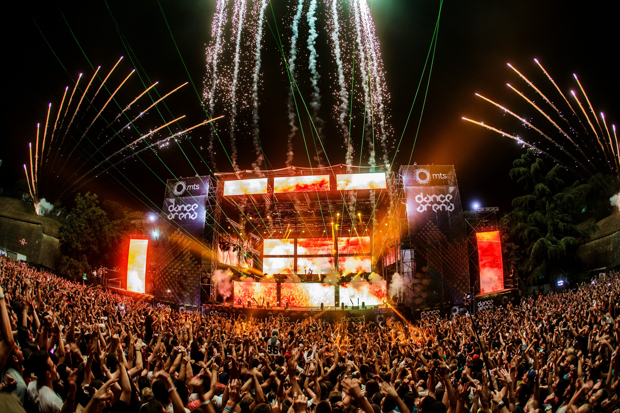 Martin Garrix, Dance Arena, EXIT Festival 2015.